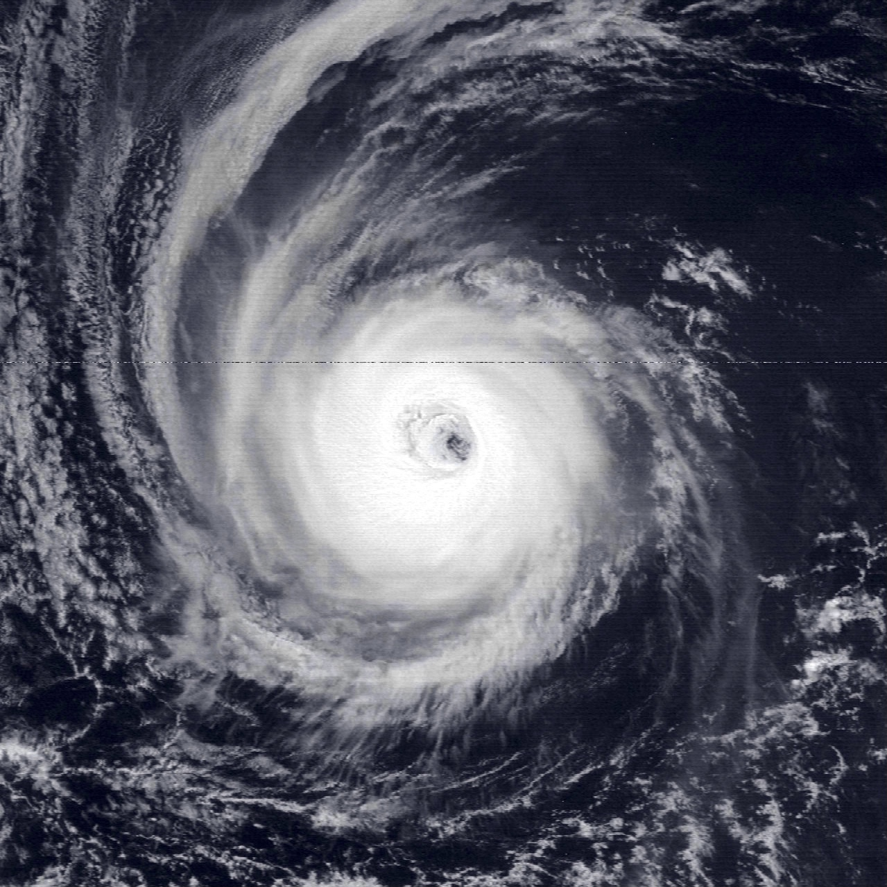 Hurricane Fico at its secondary peak intensity on July 14, 1978